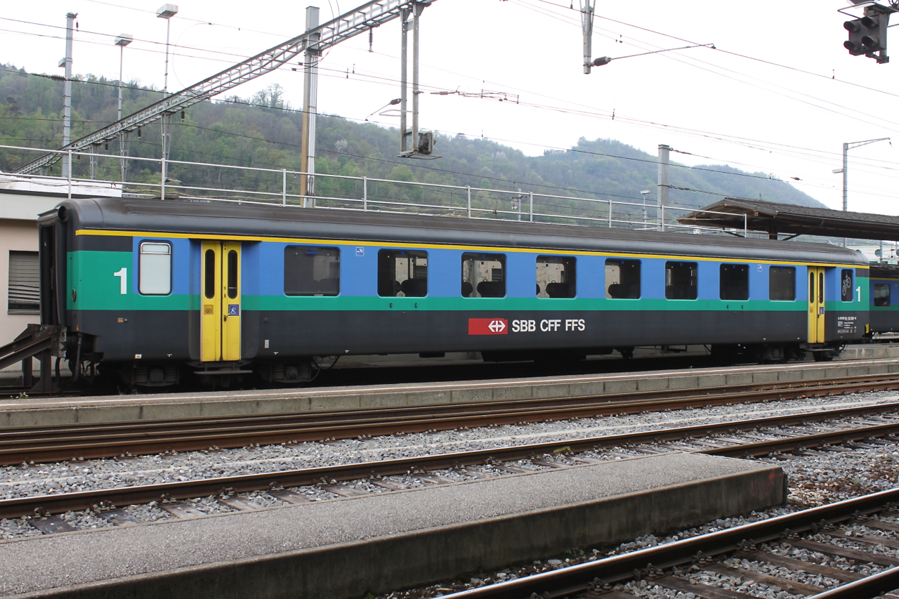 SBB CFF FFS A 50 85 18-33 552-8 at Chiasso.